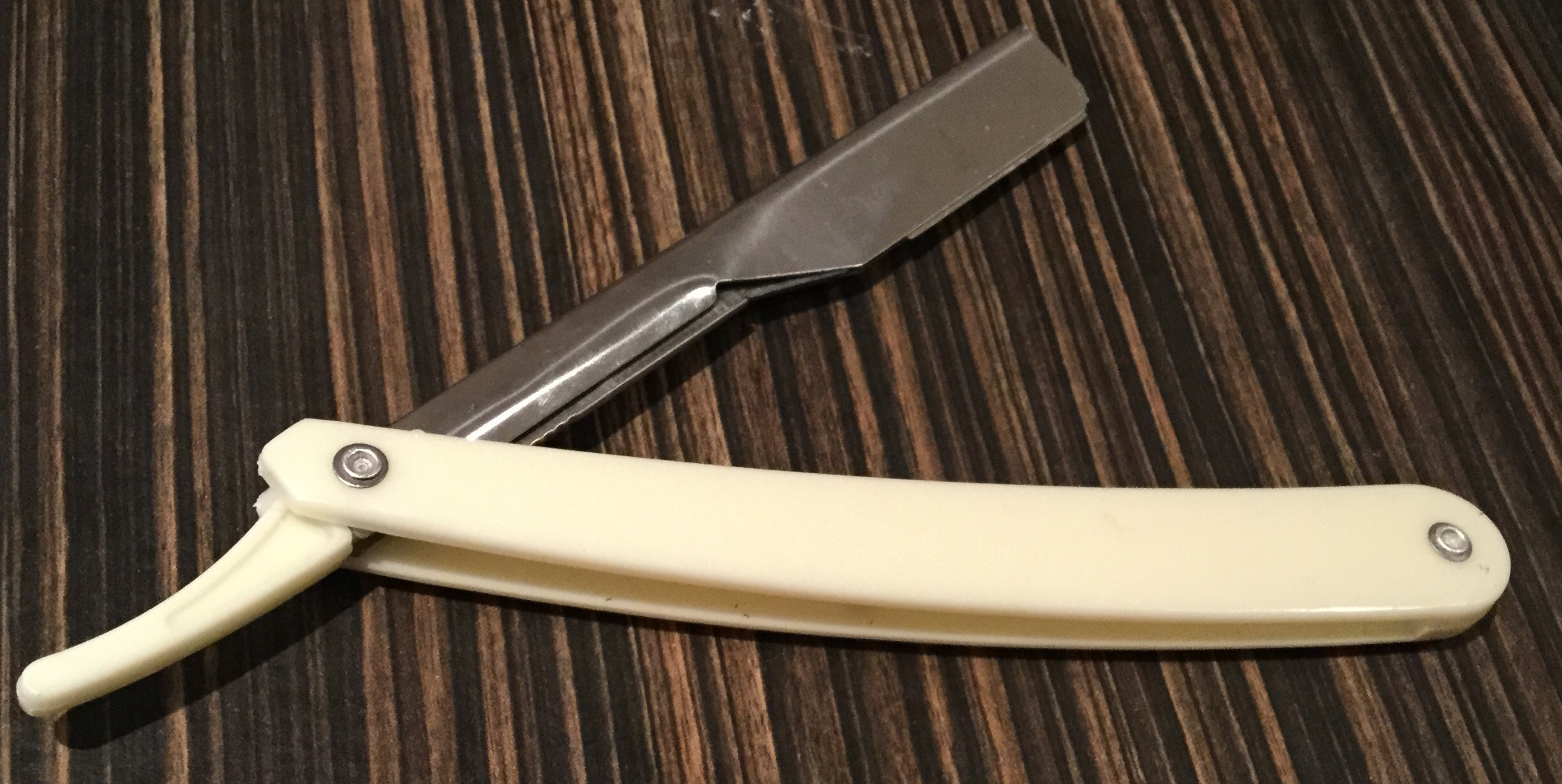 A simple shavette razor with disposable blade inserted.